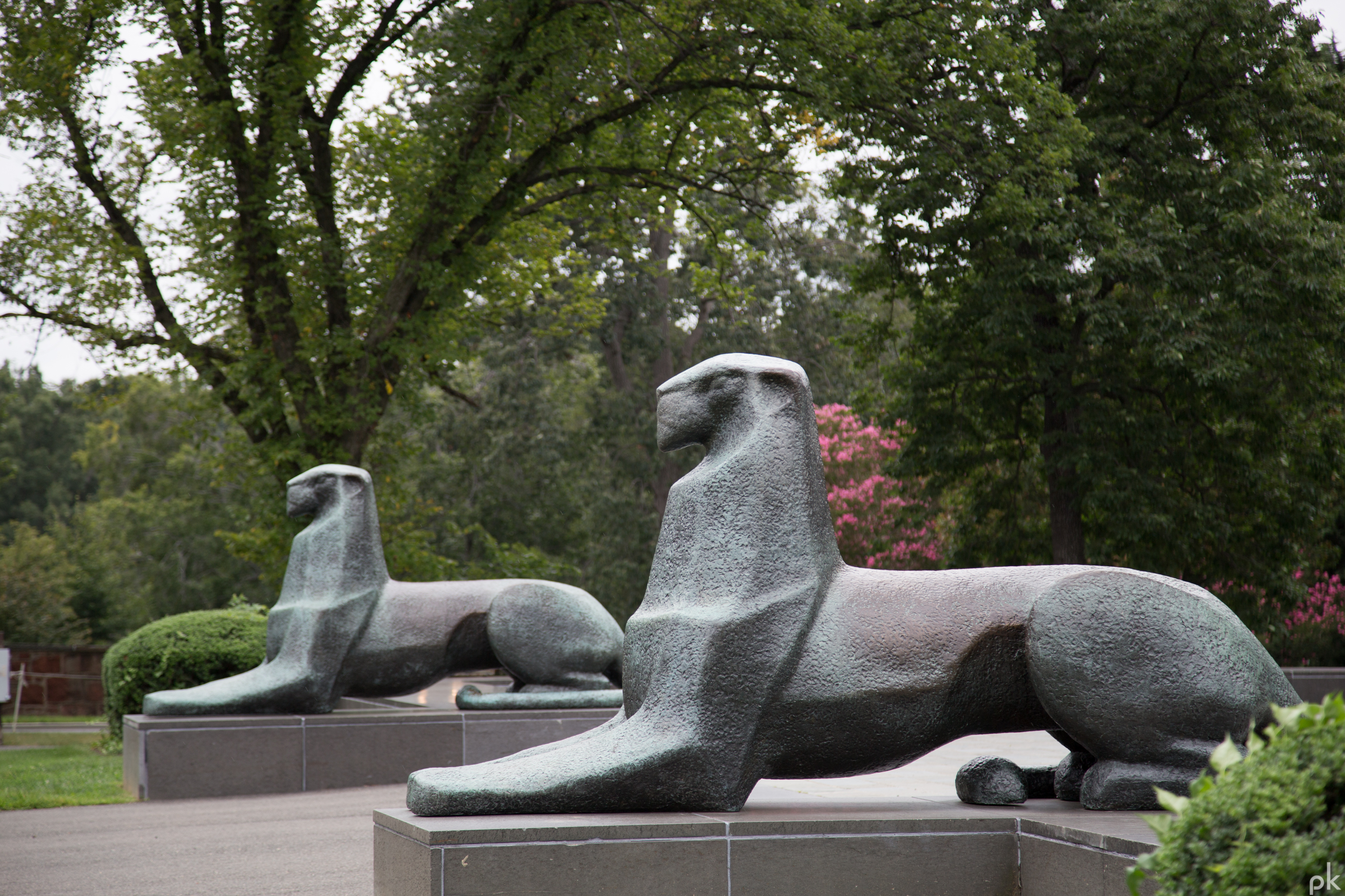 Arlington, VA, USA